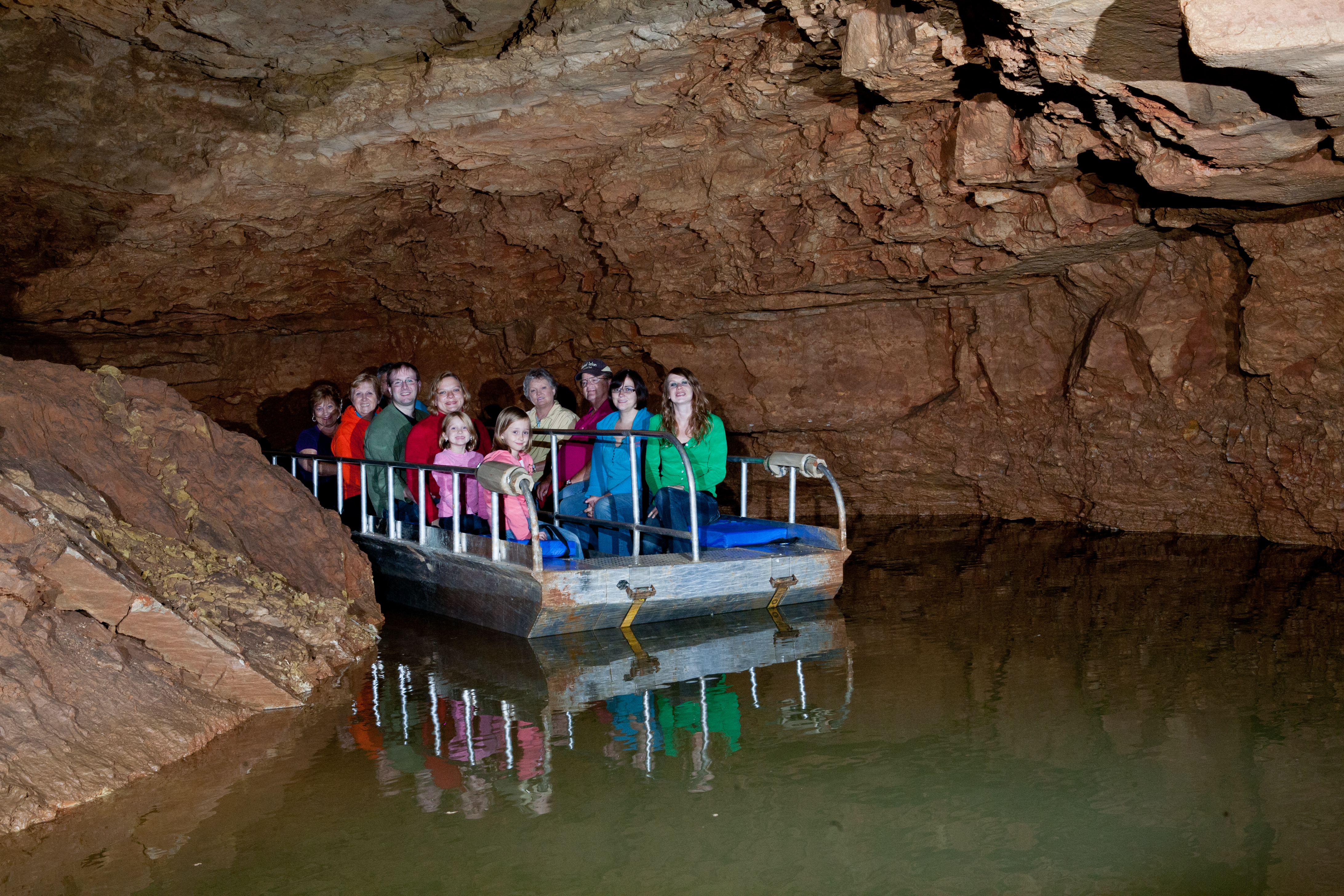 A portion of the underground boat ride at Indiana Caverns in Corydon, Indiana